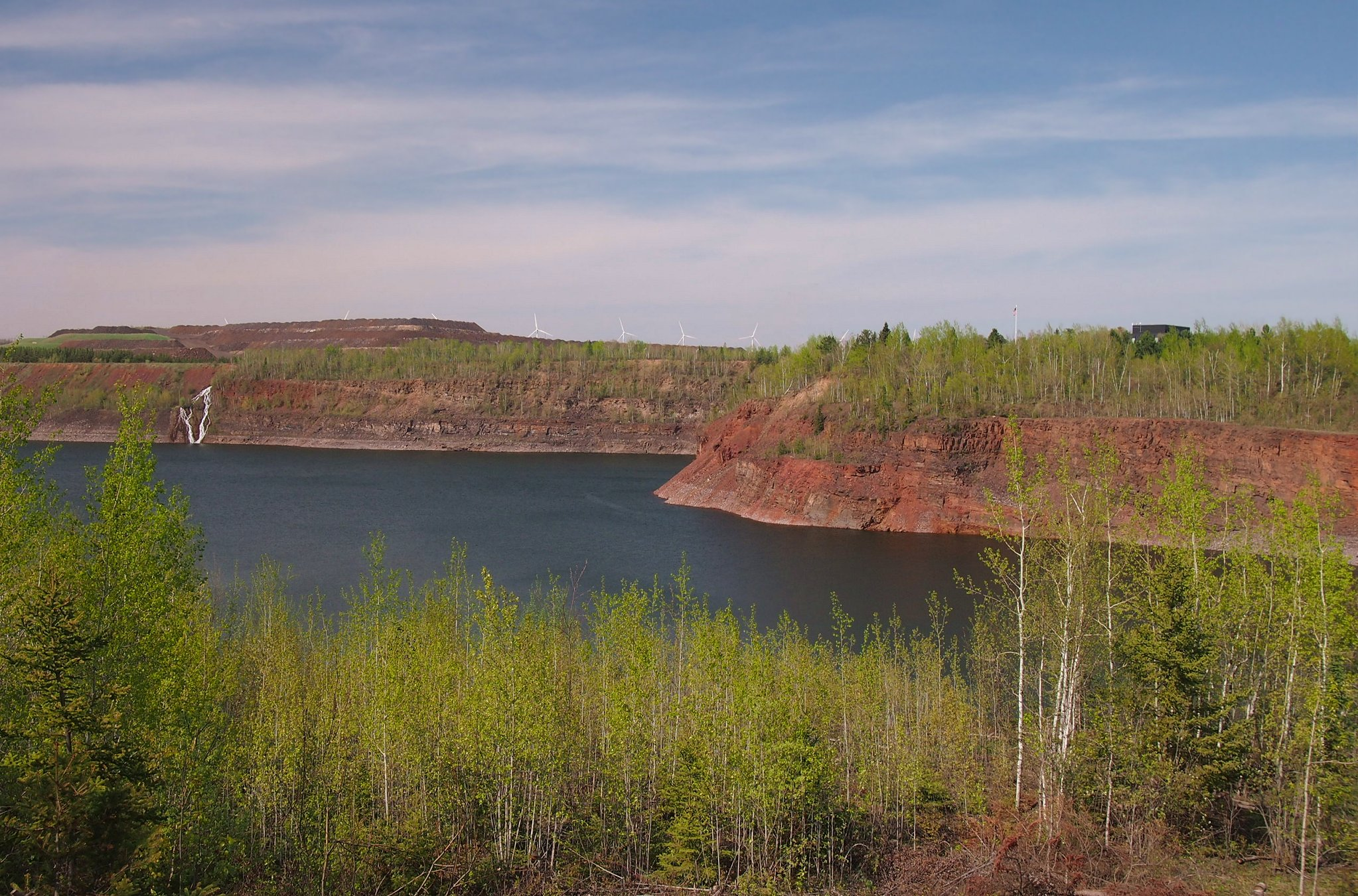 Mountain Iron Mine from city overlook, Mountain Iron, Minnesota, USA. Viewed to the north-northeast.